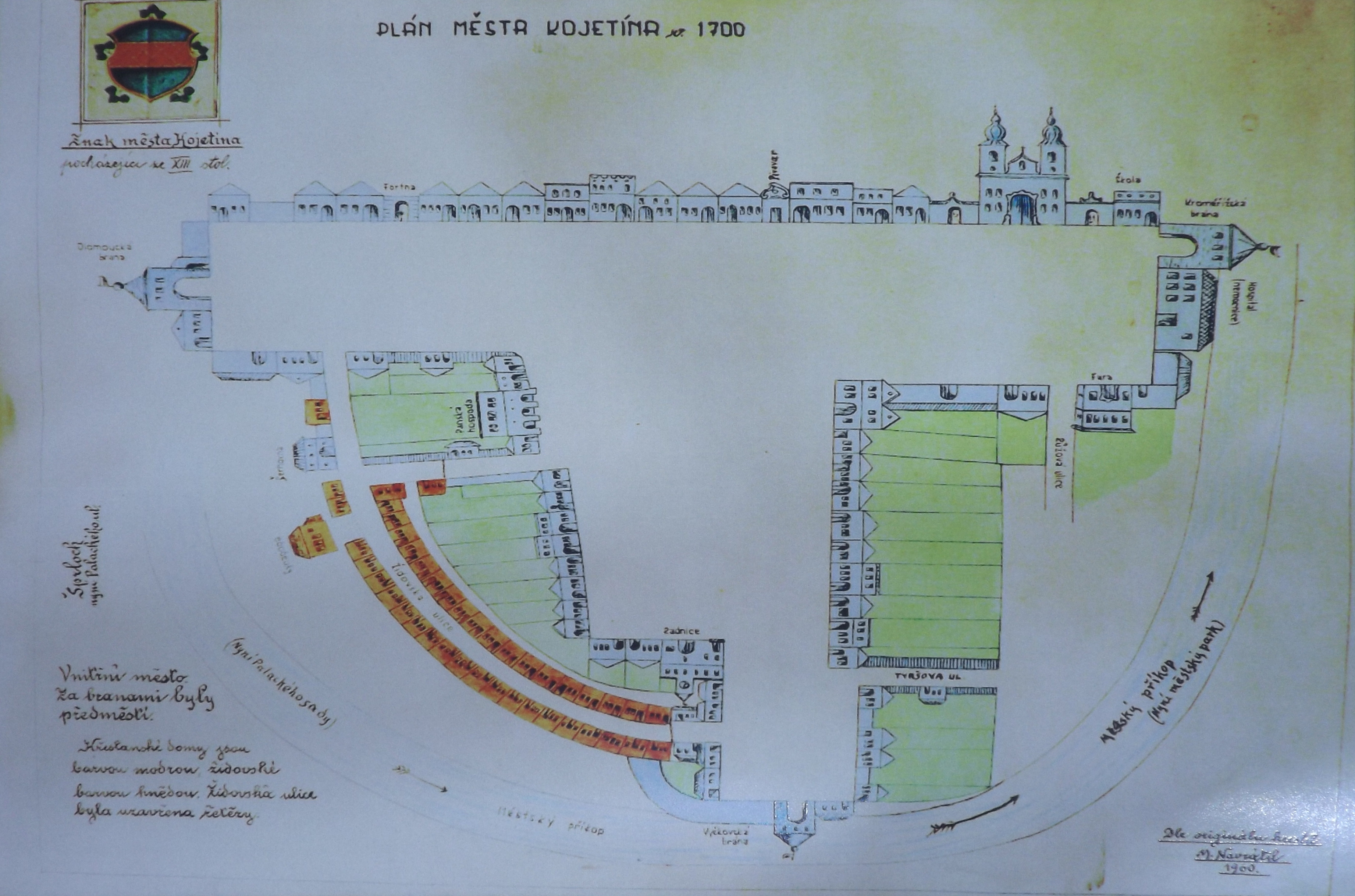 A plan of the old town Kojetín from 1700